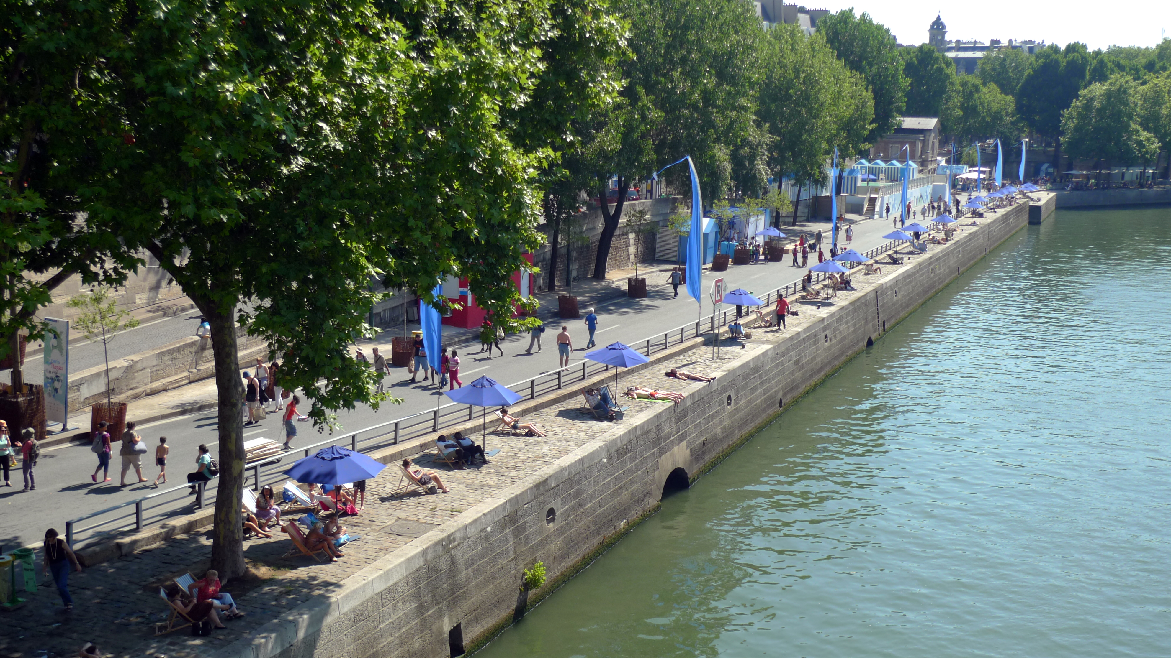 Paris-plage (PARIS,FR75)